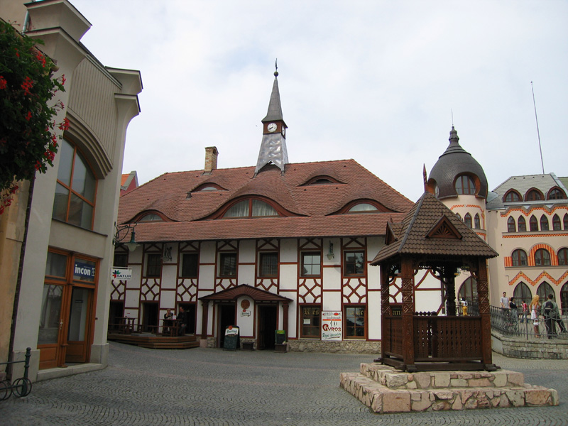 Komarno, Solovakia by marek05